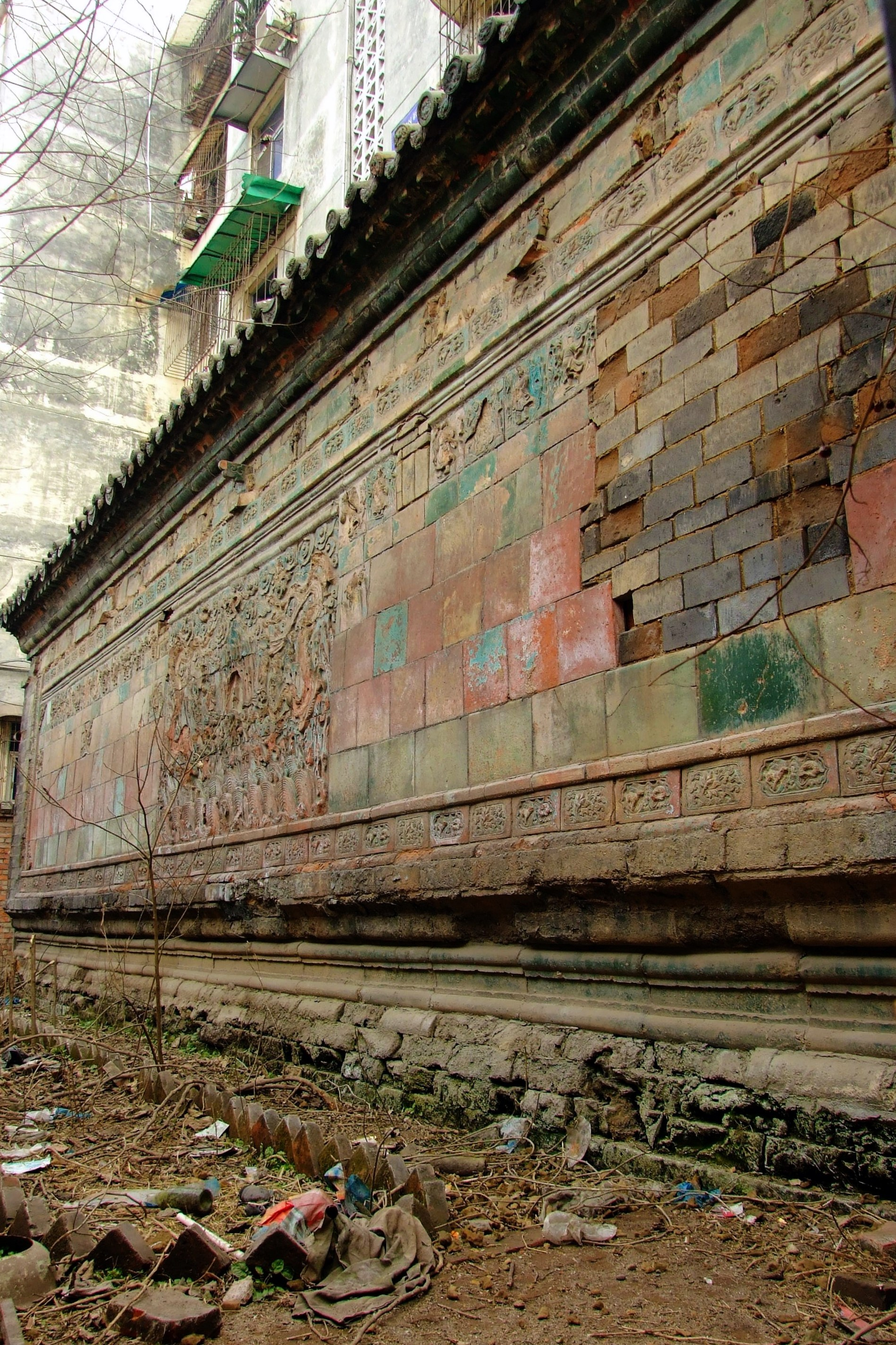 The zhaobi of Ming Dynasty in Hanzhong,Shannxi,China